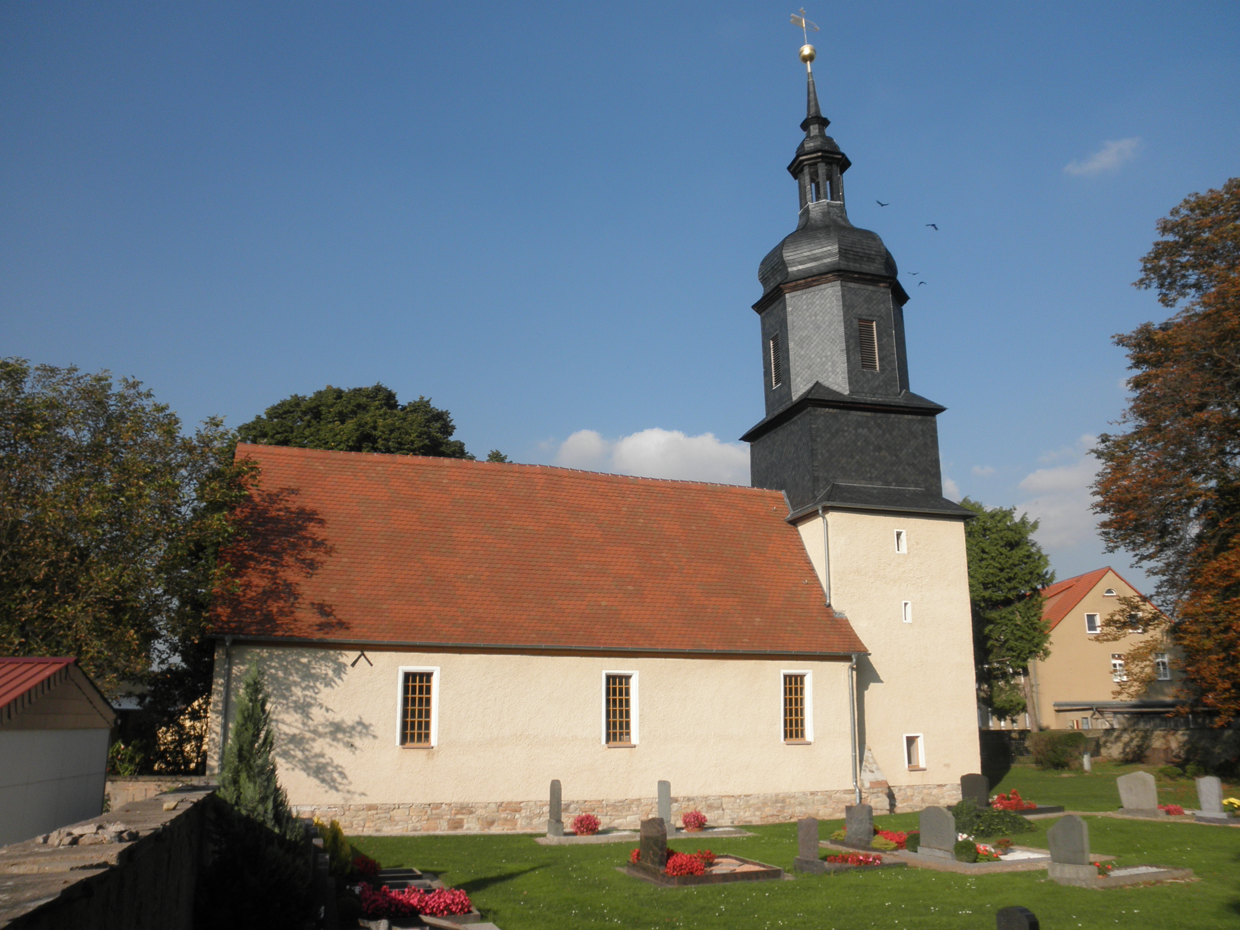 Church in Nausitz in Thuringia